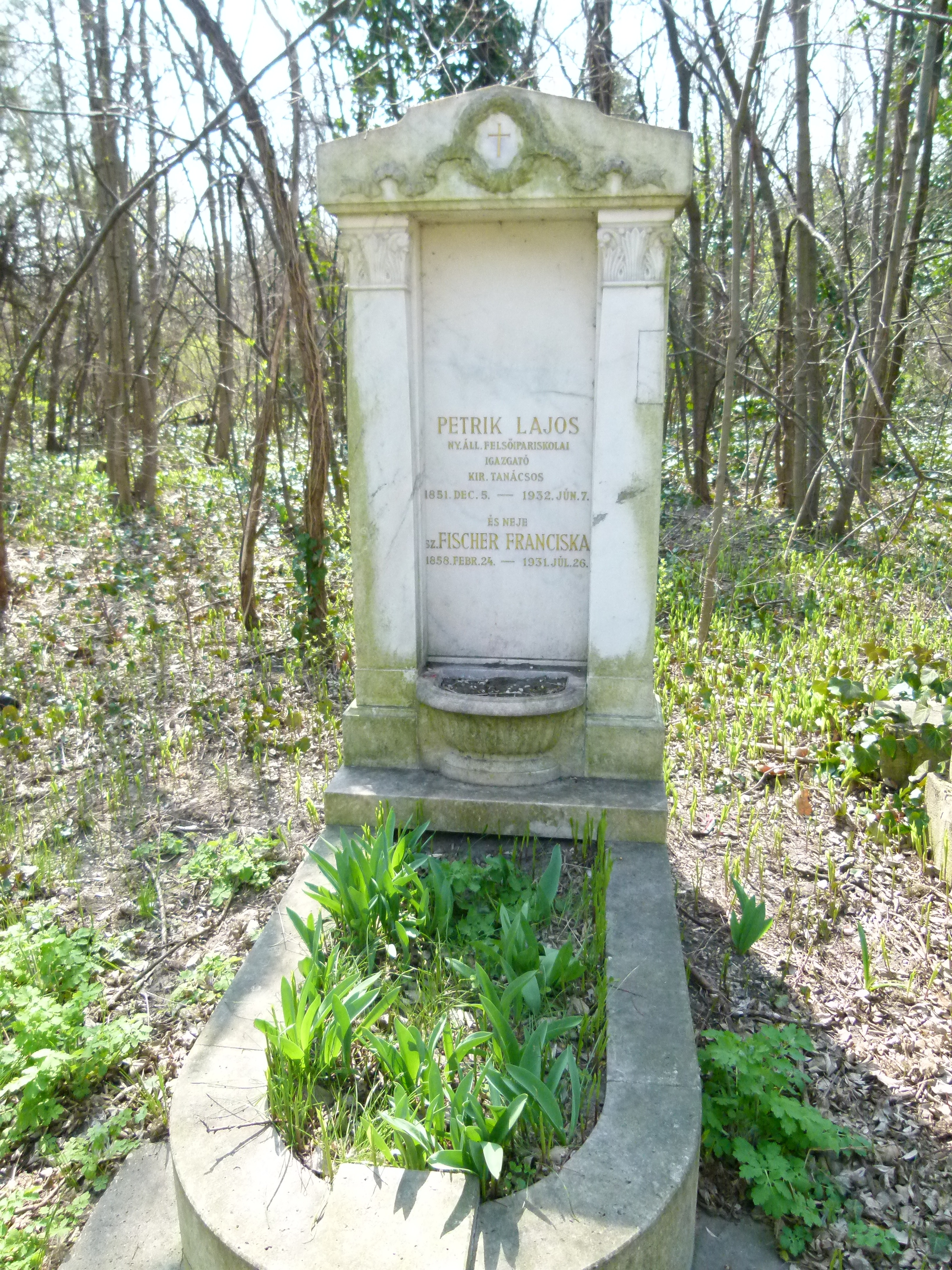 Tomb of Lajos Petrik, chemist, in 46th parcel, National Graveyard (Kerepesi Cemetery), Budapest, Hungary.